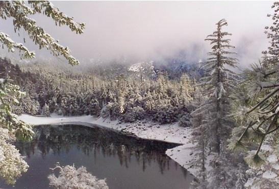 Crystal Lake in the snow